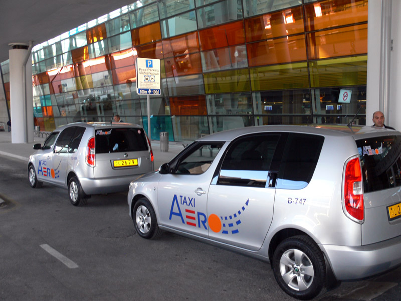 The official taxi service of Zvartnots airport